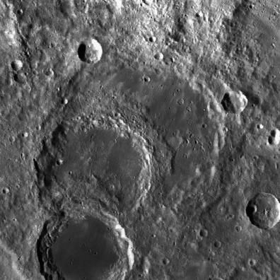 LROC . Richardson is the crescent-shaped crater at center, overlaped by sequentially younger Maxwell and dark-floor Lomonosov; bright ray material from Giordano Bruno at upper edge of frame